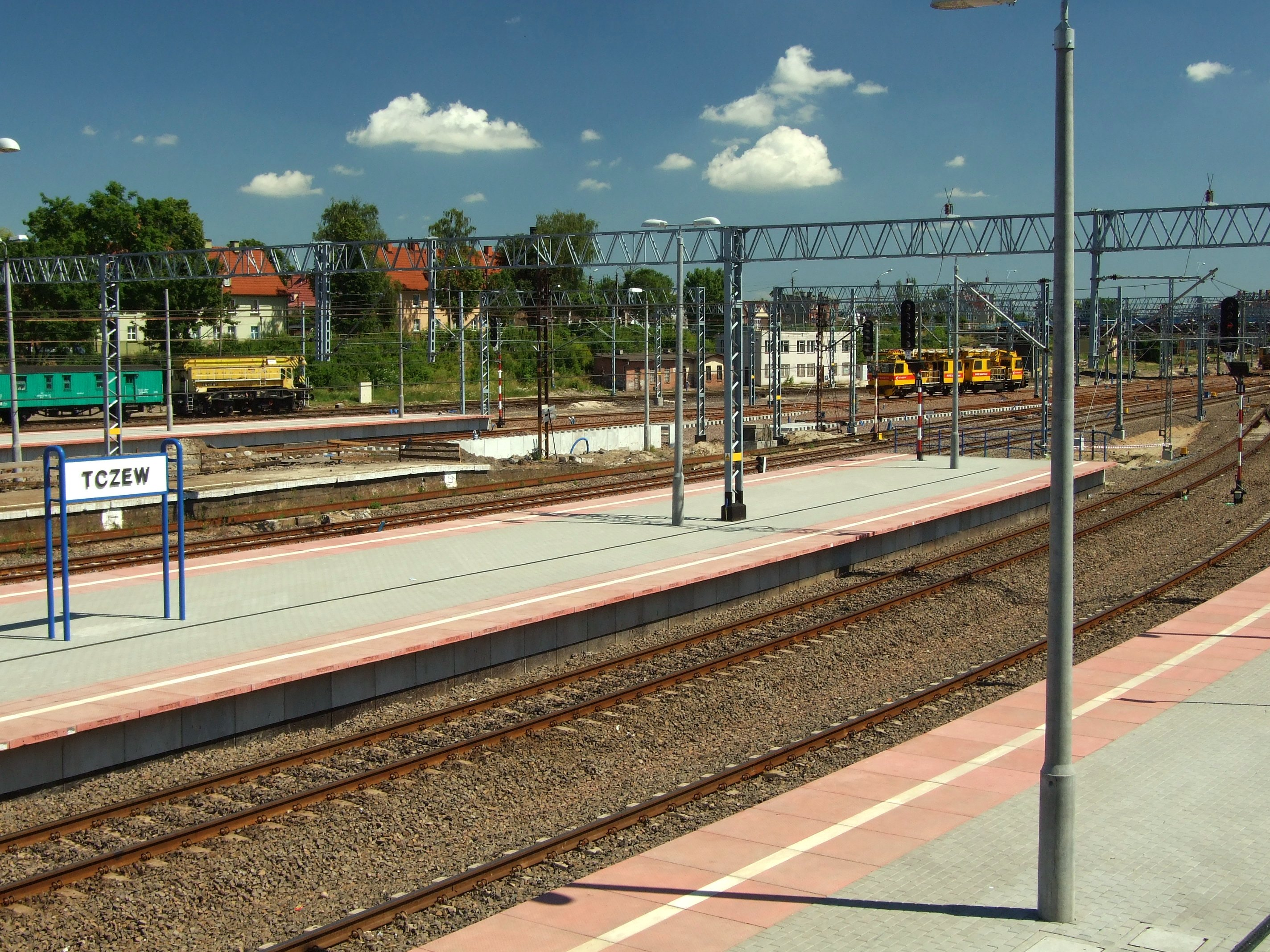 Renewed platforms of the Tczew train station in Pomorskie voivodeship, Poland